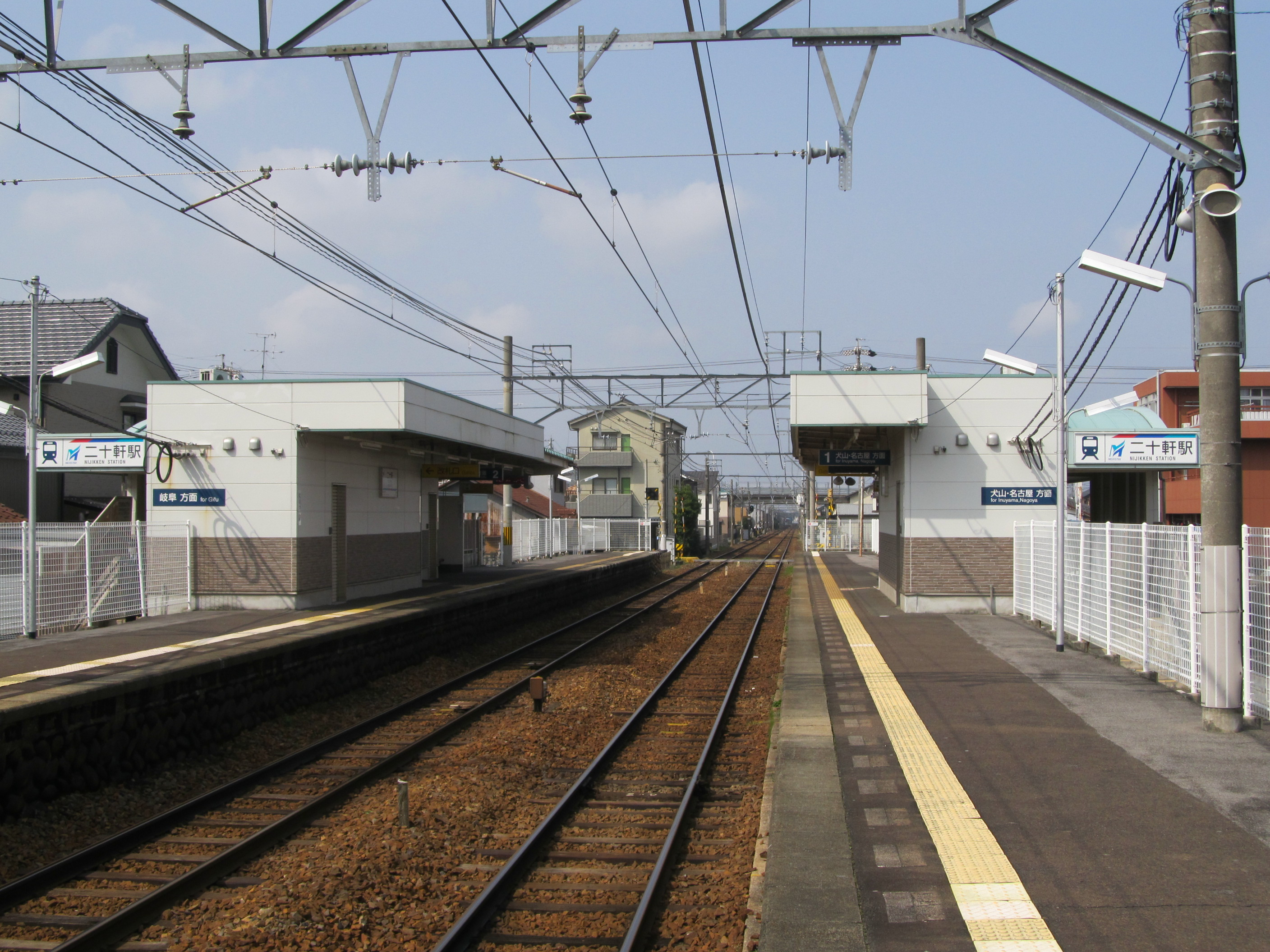 Nagoya Railroad Kakamigahara Line Nijikken Station Platform.